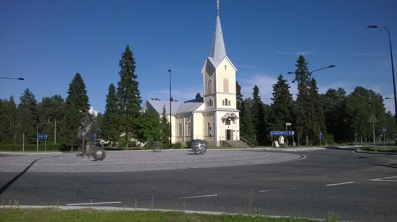 Tyrnävä Church in Tyrnävä, Finland